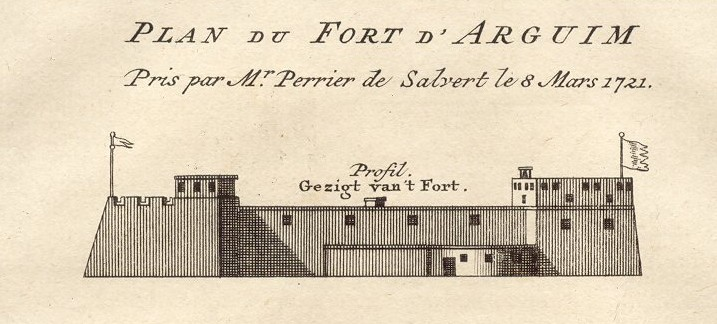 The colonial fort at Arguin Island, Mauritania.